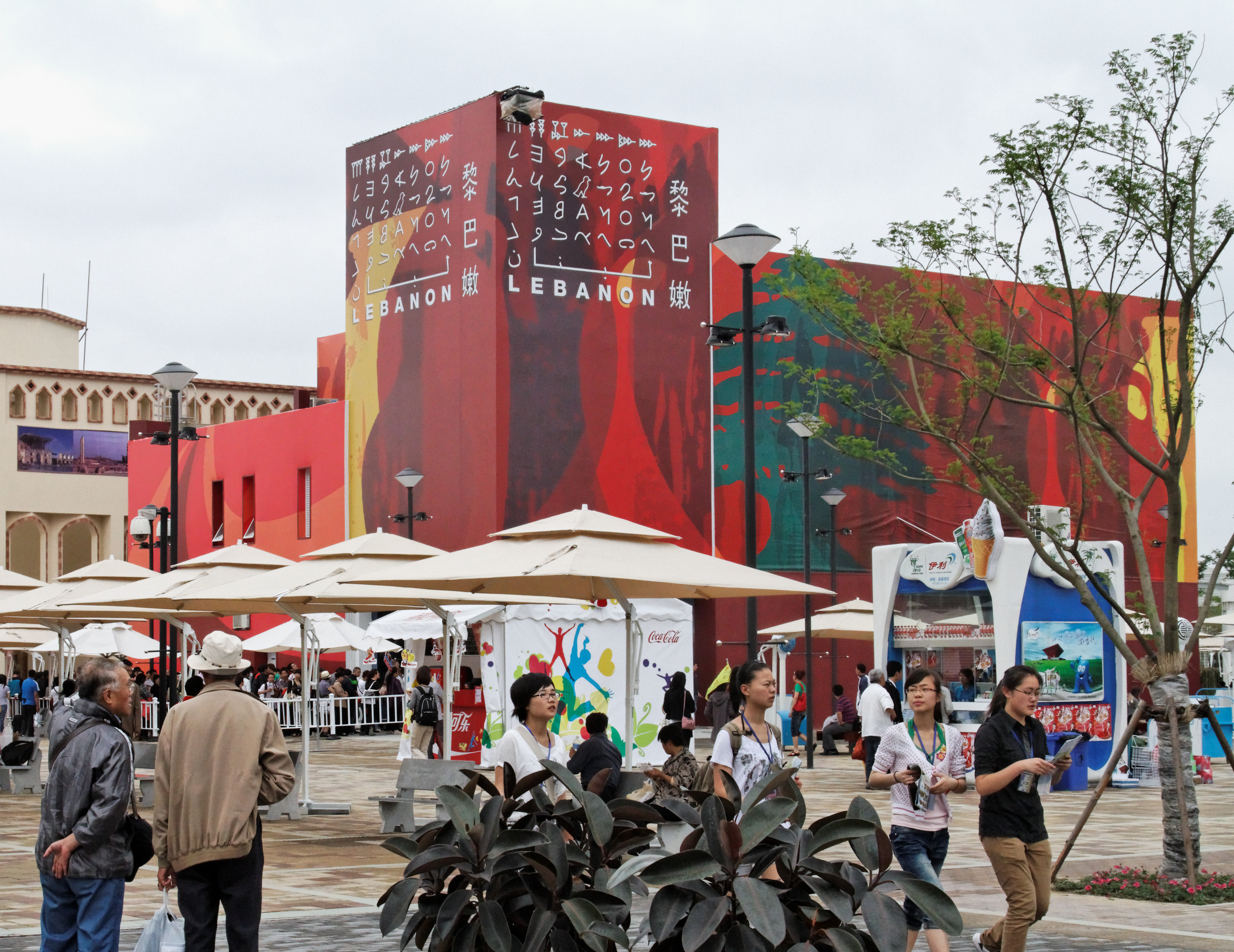 Lebanon Pavilion of Expo 2010, ground view